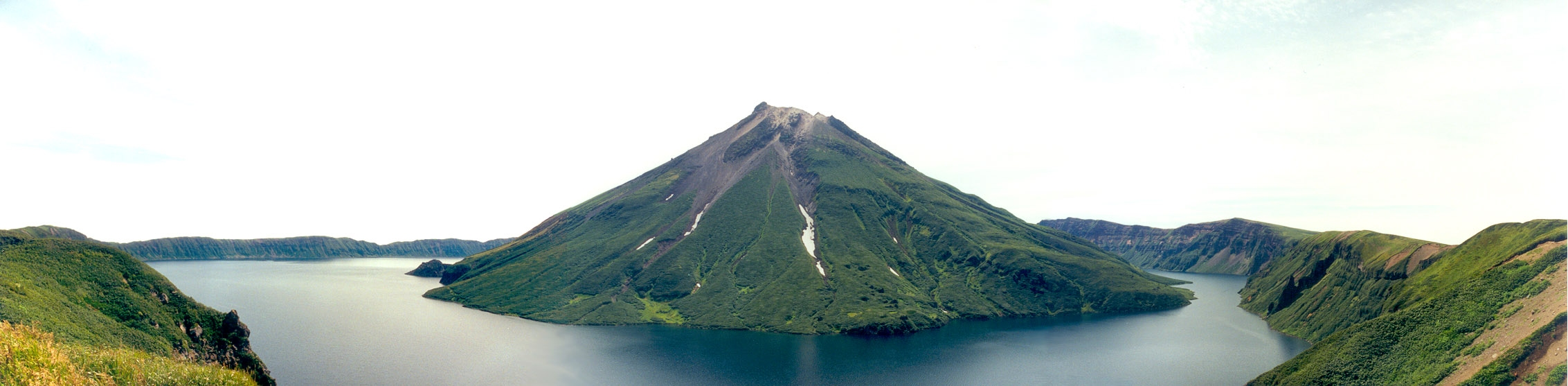 A volcano in the Kurile Islands, Onekotan, Russia. This volcano appears to be formed after a volcanic collapse forming a caldera. This is similar to Wizard Island in Crater Lake Russia.